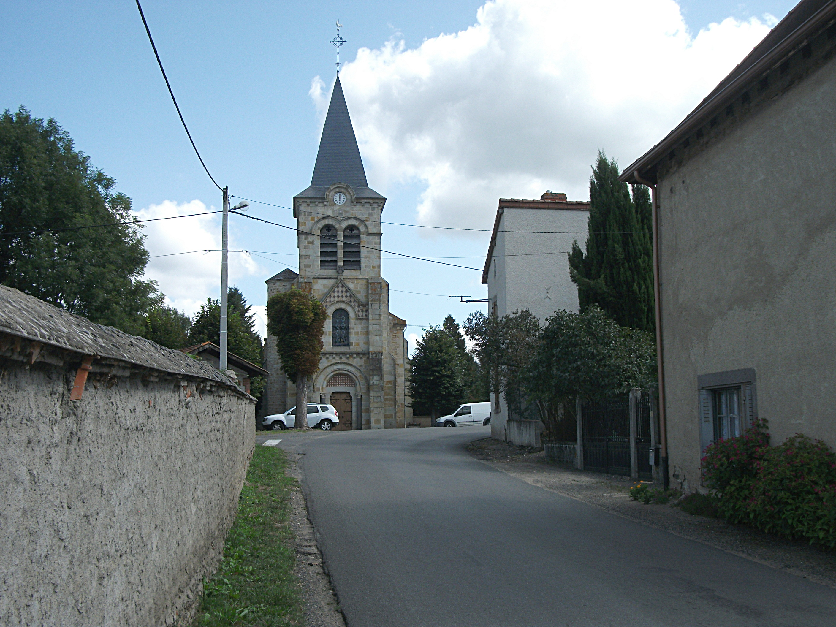 Church and departmental road 4 in Vinzelles, Puy-de-Dôme, France [15134]